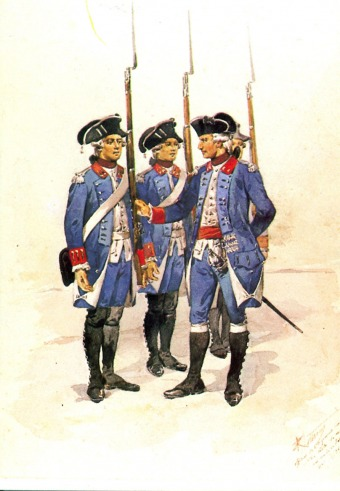 Regimento de Infantaria da Corte em 1762. Aguarela de Ribeiro Artur